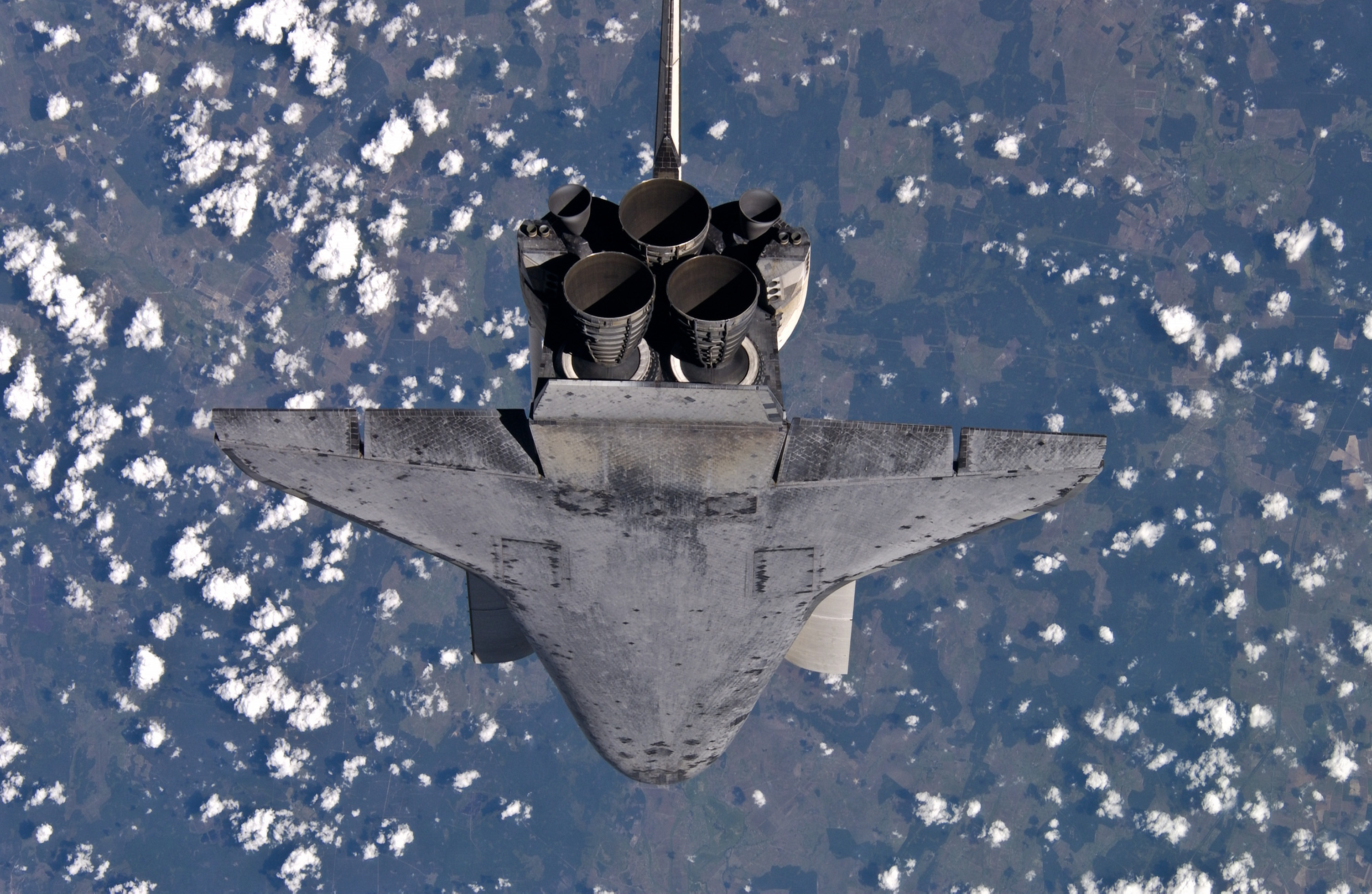 This underside view of the Space Shuttle Discovery was photographed by cosmonaut Sergei Krikalev and astronaut John Phillips, as Discovery approached the International Space Station and performed a backflip to allow photography of its heat shield. Astronaut Eileen Collins, guided the Shuttle through the flip.